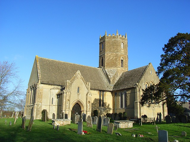 St Mary's parish church, Uffington, Oxfordshire (formerly Berkshire), seen from the southwest